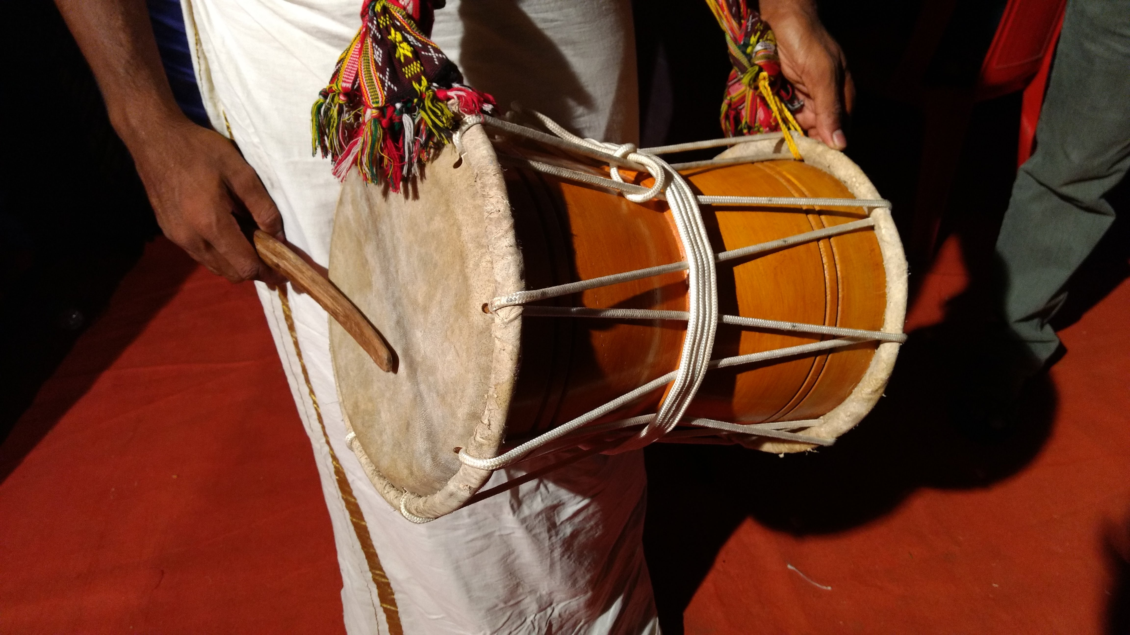 Ezhupara, a percussion instrument in Kerala